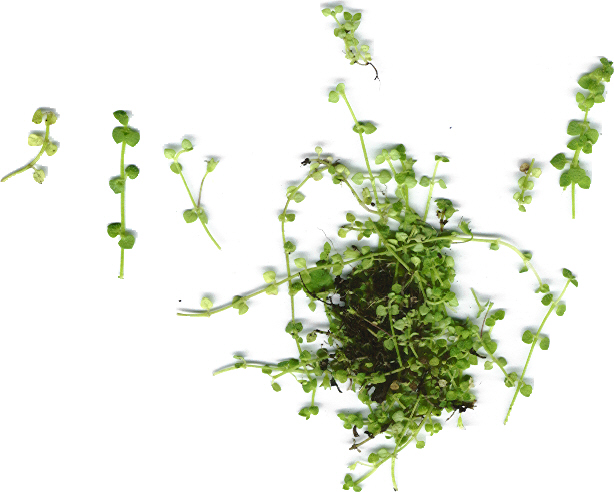 Hedyotis callitrichoides (plant). Location: Maui, DOA moist areas of lawn